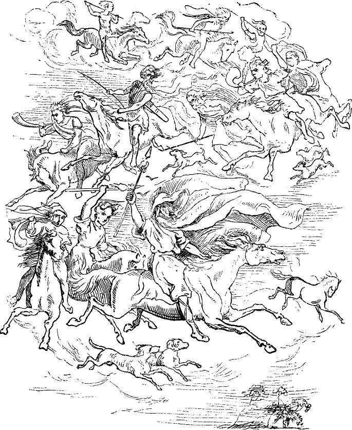 Christmas throughout Christendom Odin as the Wild Huntsman